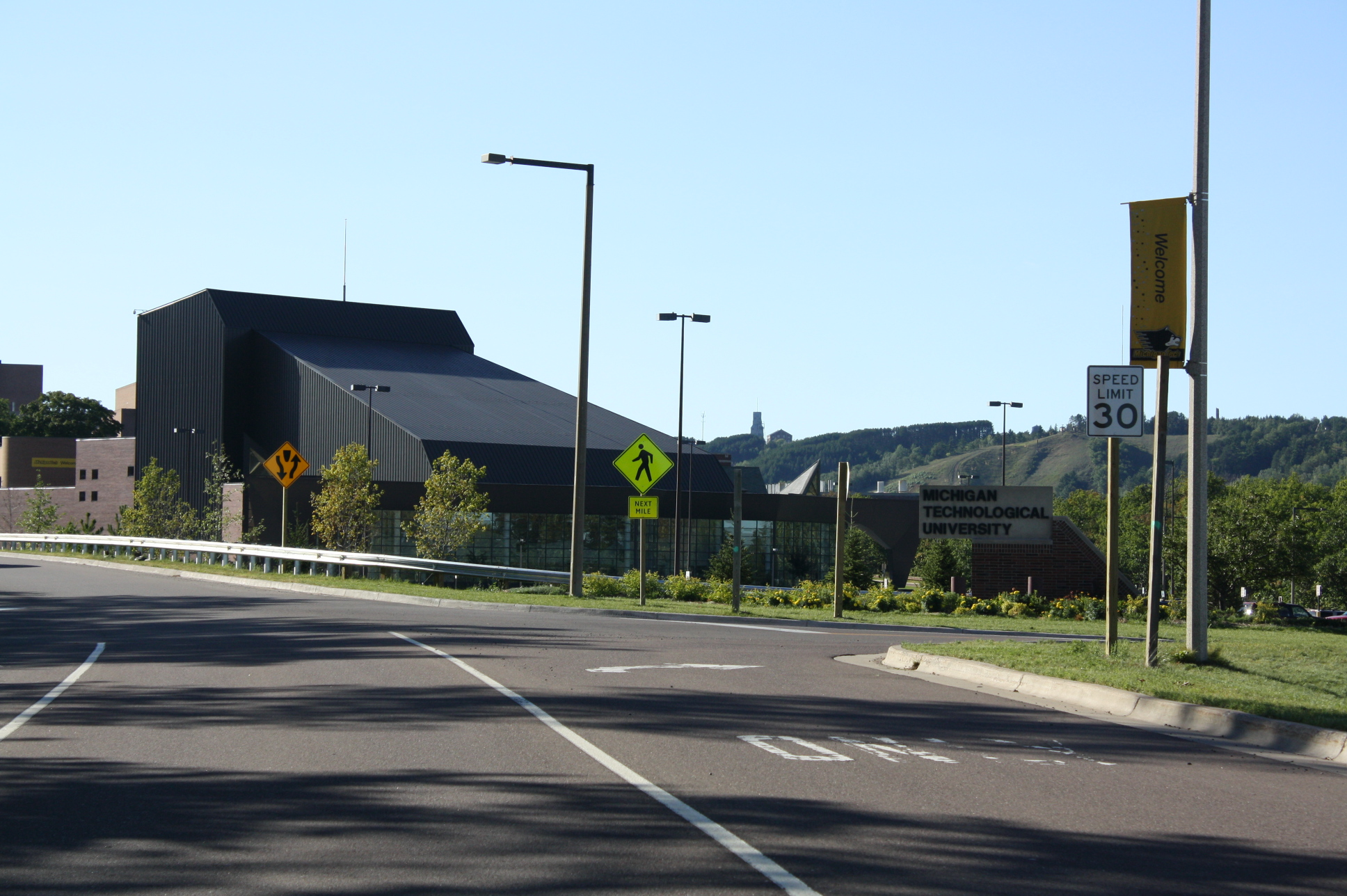 The sign for Michigan Technological University in Houghton, Michigan along U.S. Route 41.